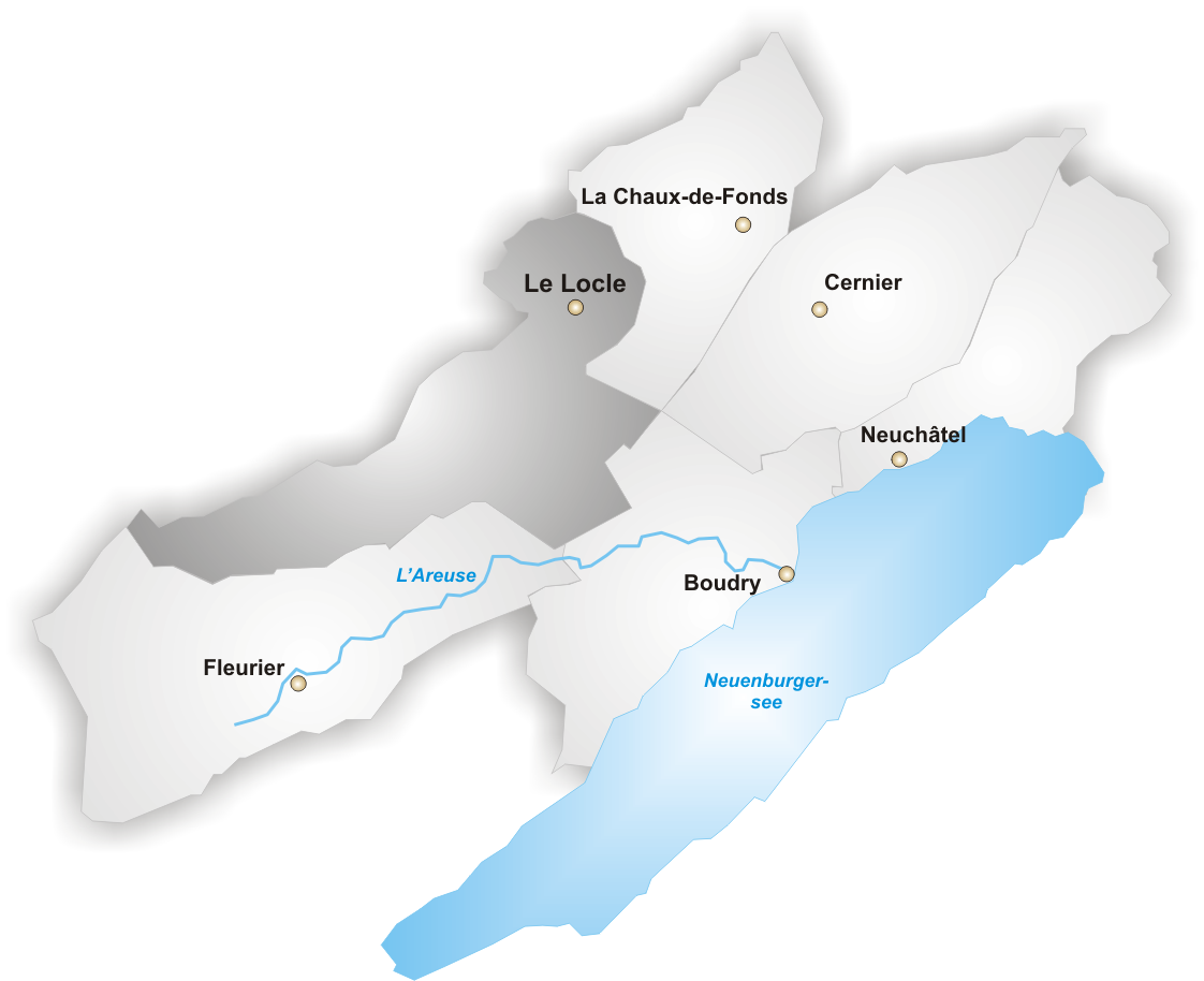 District Le Locle